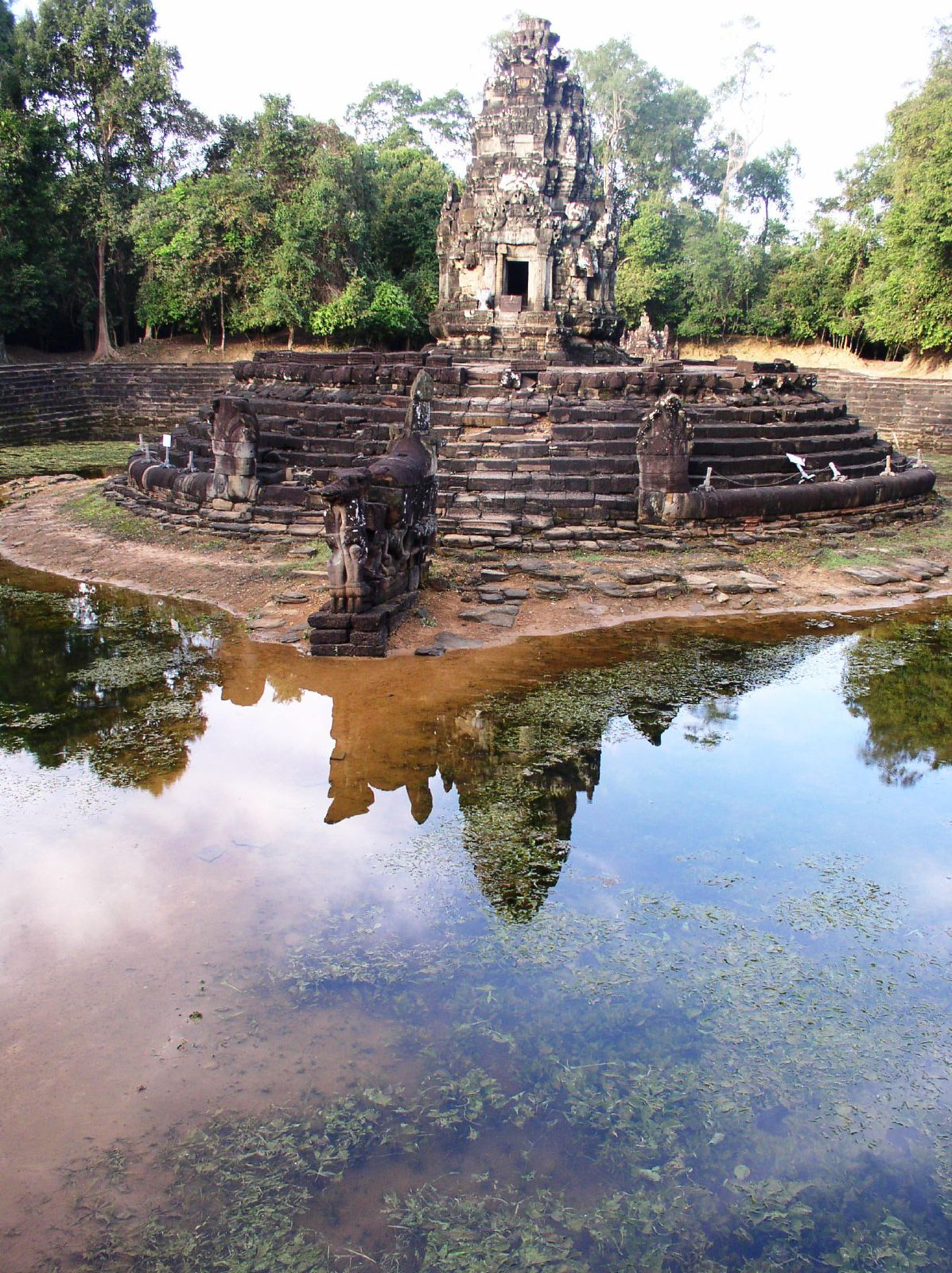 Picture of Neak Pean in Ankor, Cambodia